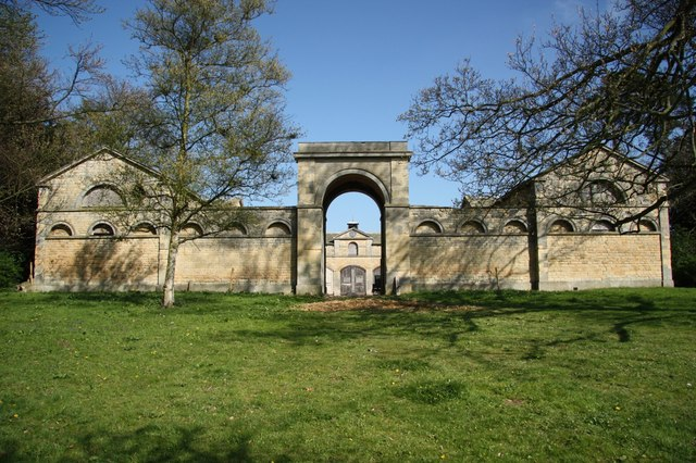 Stable Block. Stables and coach house at Leadenham House, by E.J.Willson in 1833.